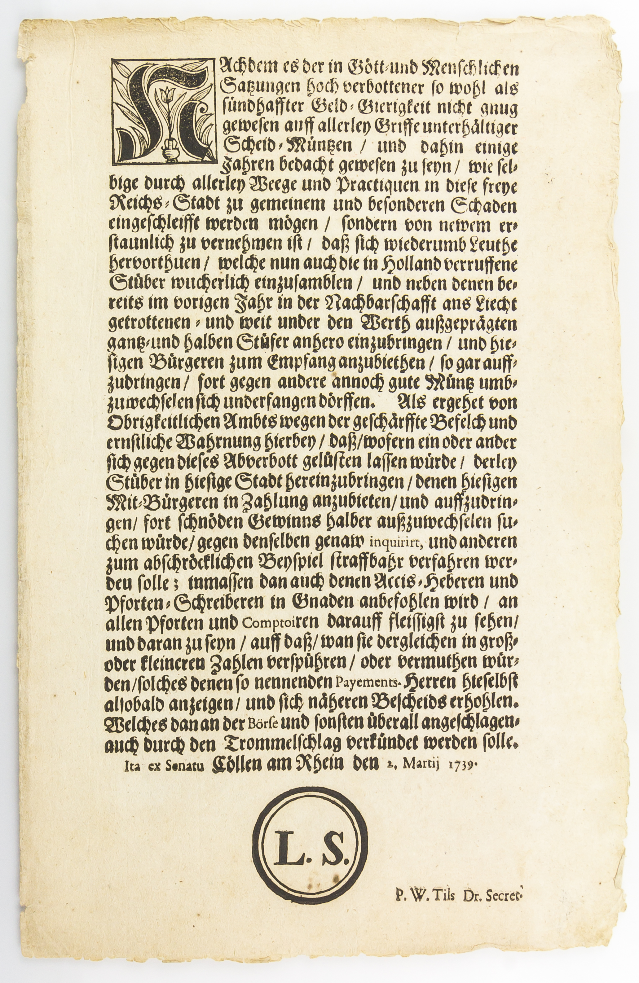 Demonetization poster by Cologne city council dated 2. März 1739, prohibiting import and circulation of demonetized Dutch stuiver coins